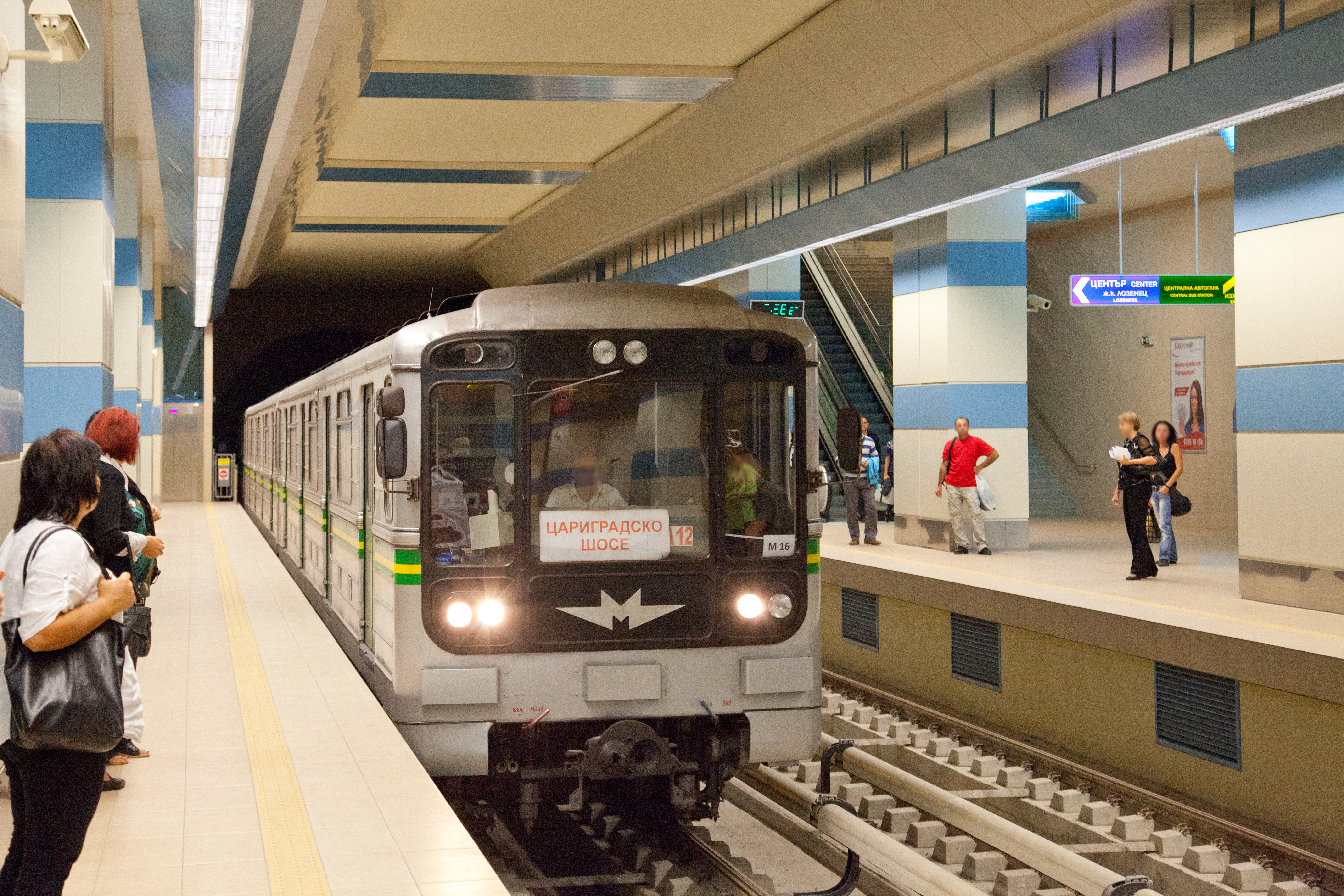 Sofia Metro: Central railway station (Sofia Metro)